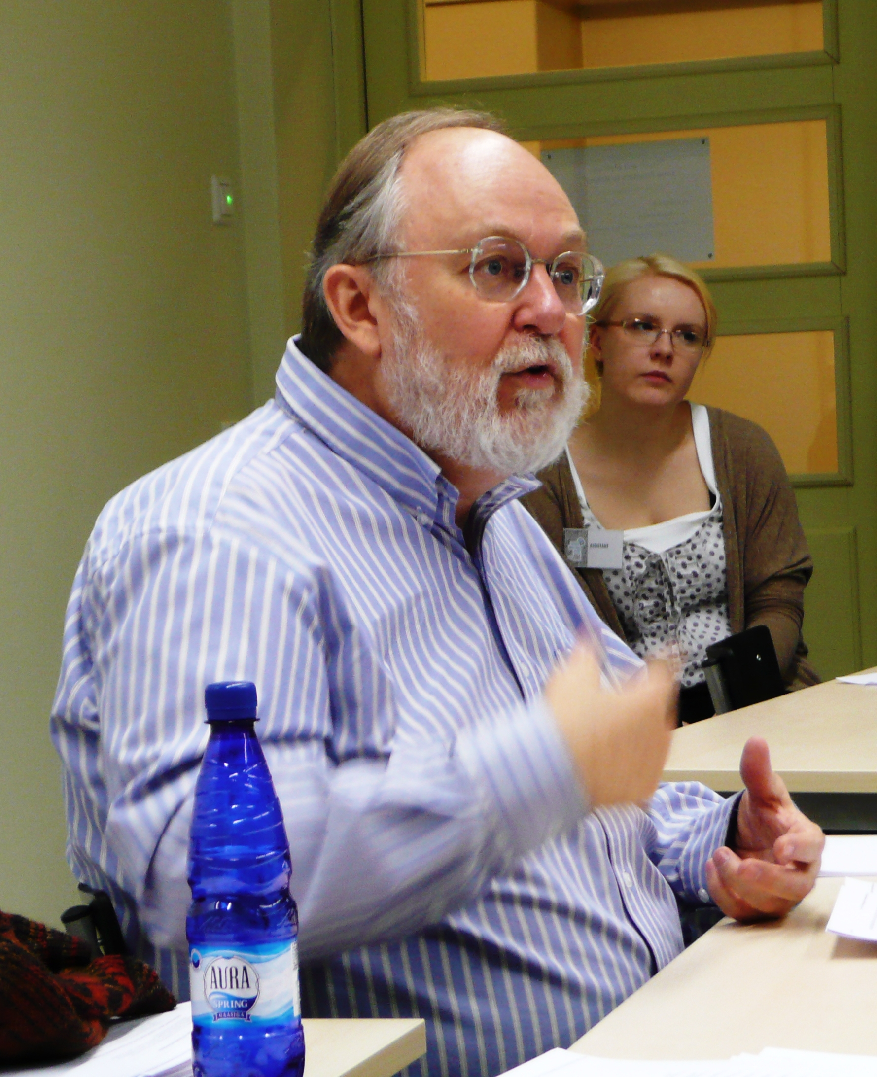 David Huron is an American musicologist.